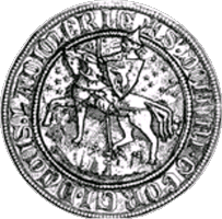 Seal of Yuri I of Galicia